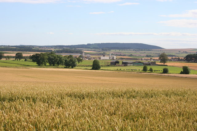 Carsebank Wheat fields at Carsebank, and in the middle distance is Laird's plant at Lunanhead, which produces all manner of concrete products. Fothringham Hill is on the skyline.